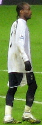 Pascal Chimbonda. Image cropped from original at flickr.